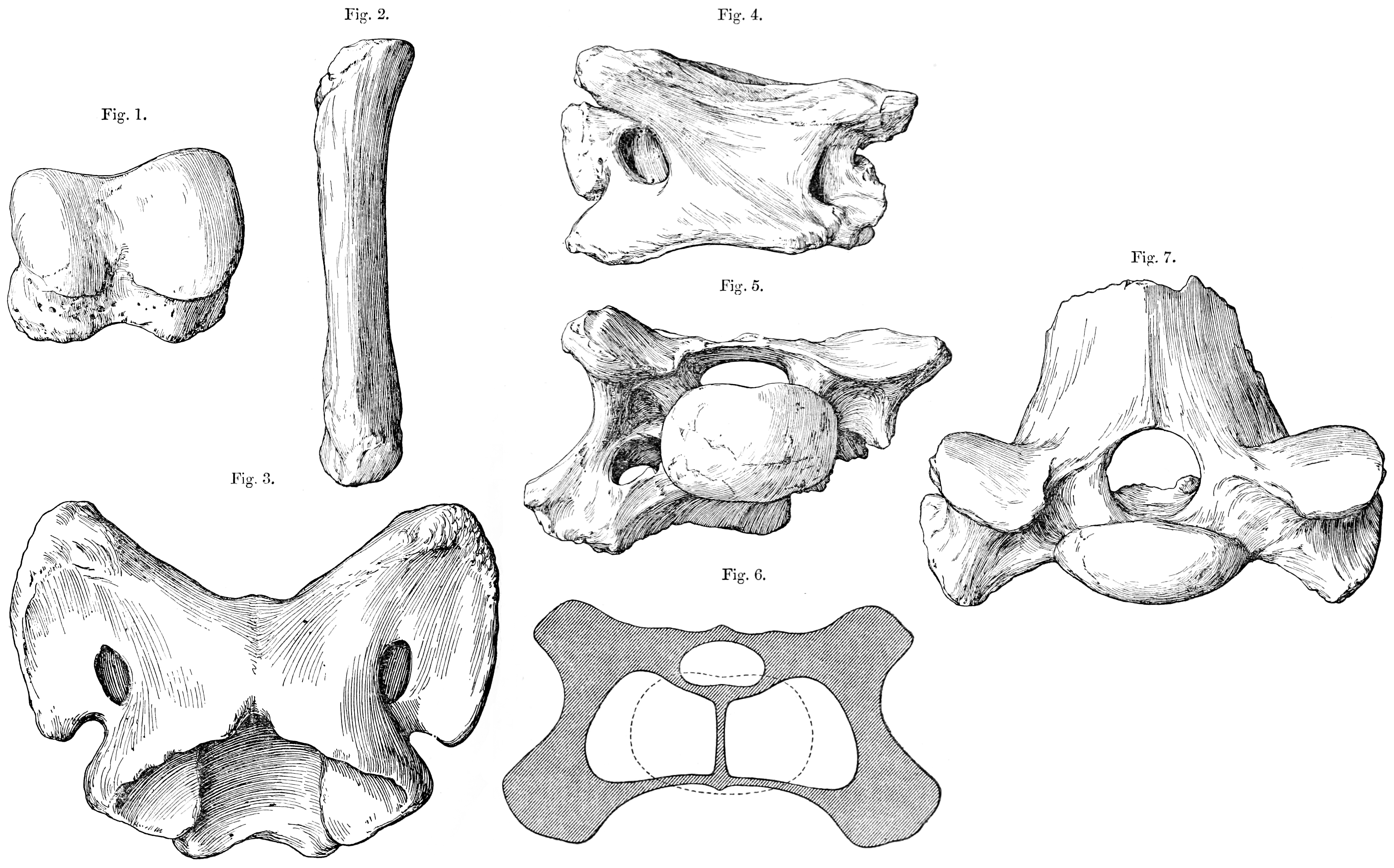 Astragalus, foot and atlas bone of Paraceratherium bugtiense, or Baluchitherium osborni.